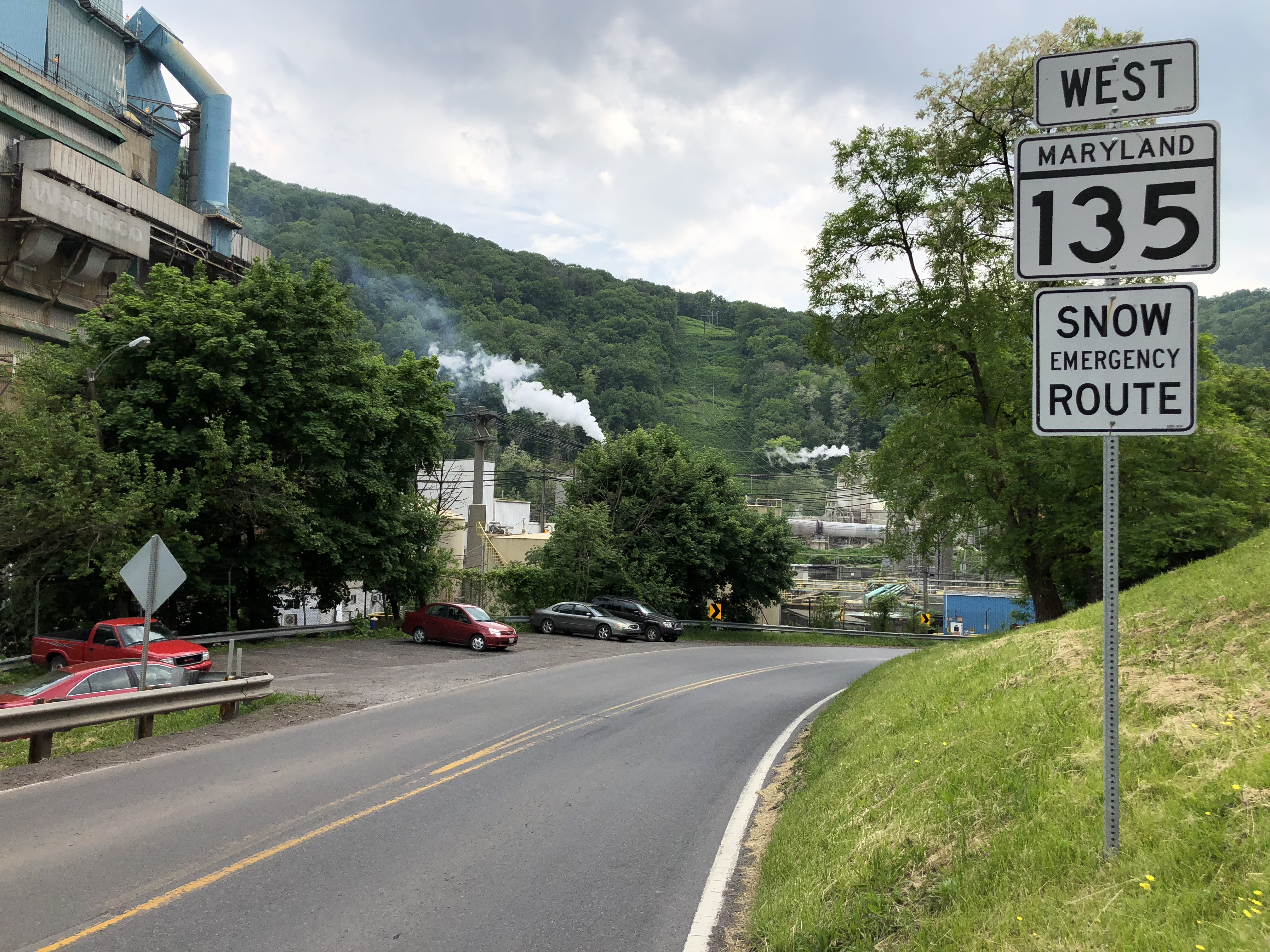 View west along Maryland State Route 135 (Pratt Street) at Grant Street in Luke, Allegany County, Maryland